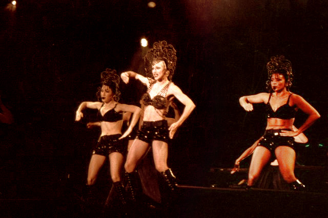 Photo taken during one of the concerts in 1993